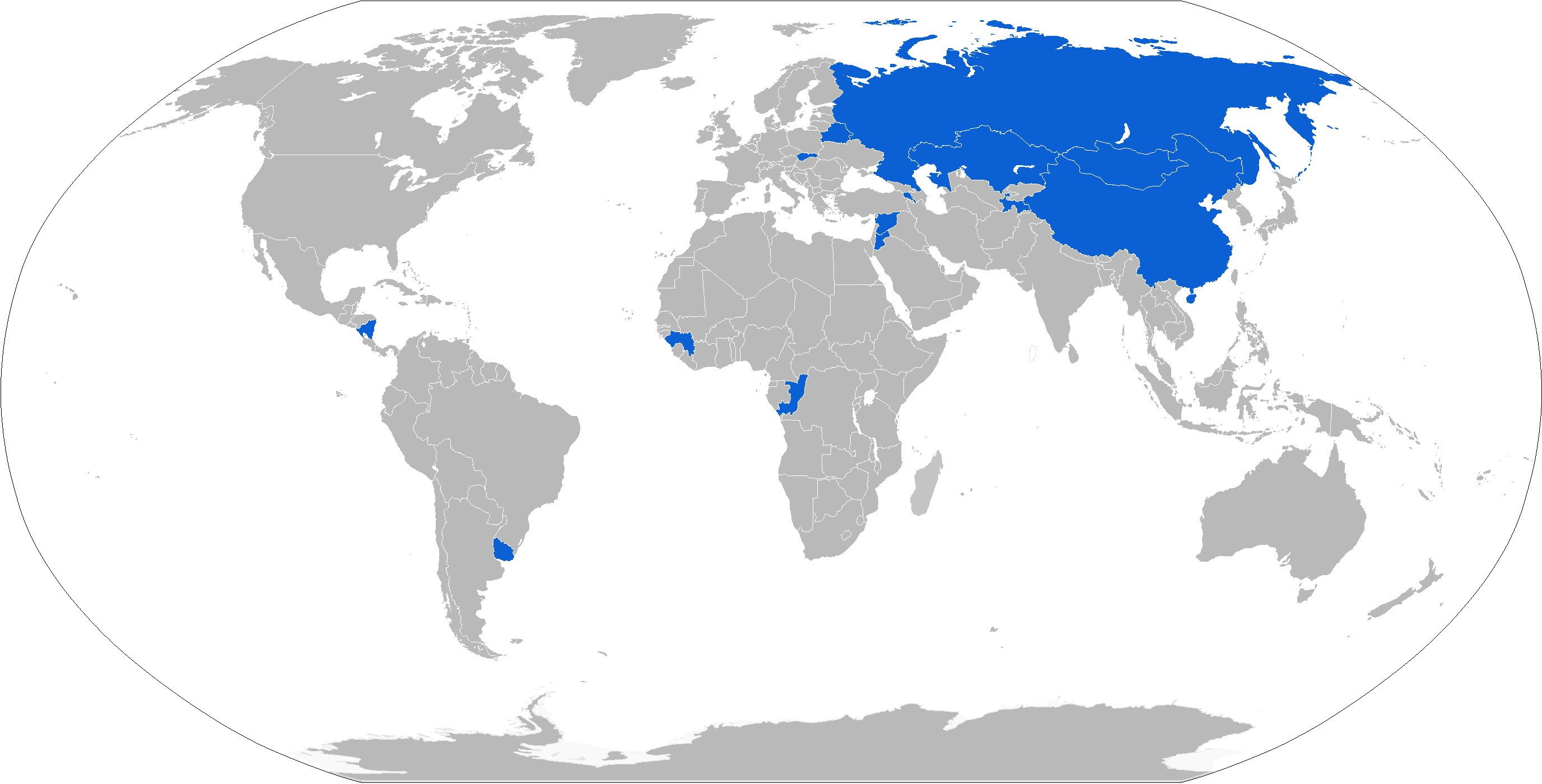 Map of Tigr operators in blue